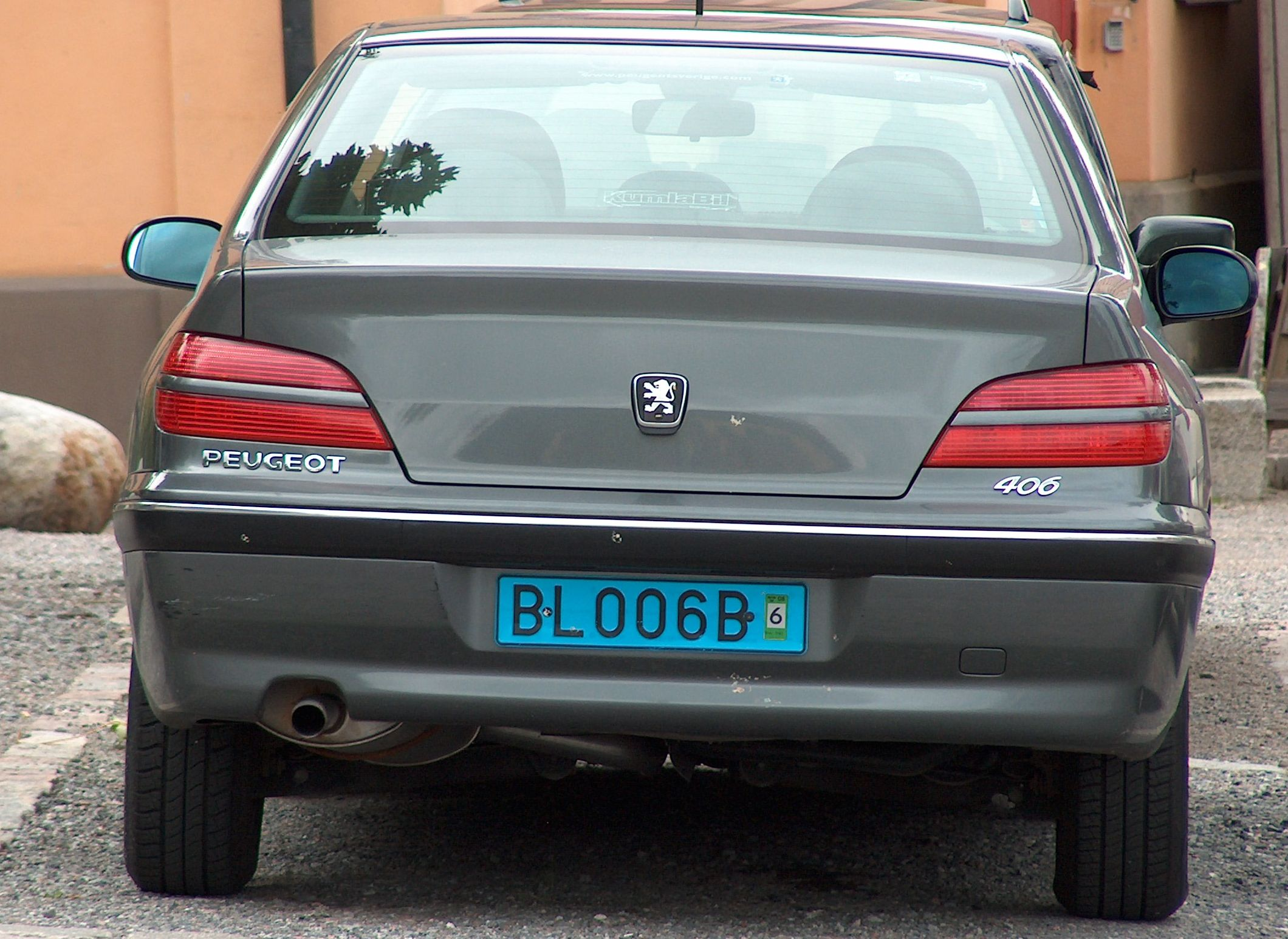 diplomatic license plate from Sweden, seen in Stockholm. BL codes France